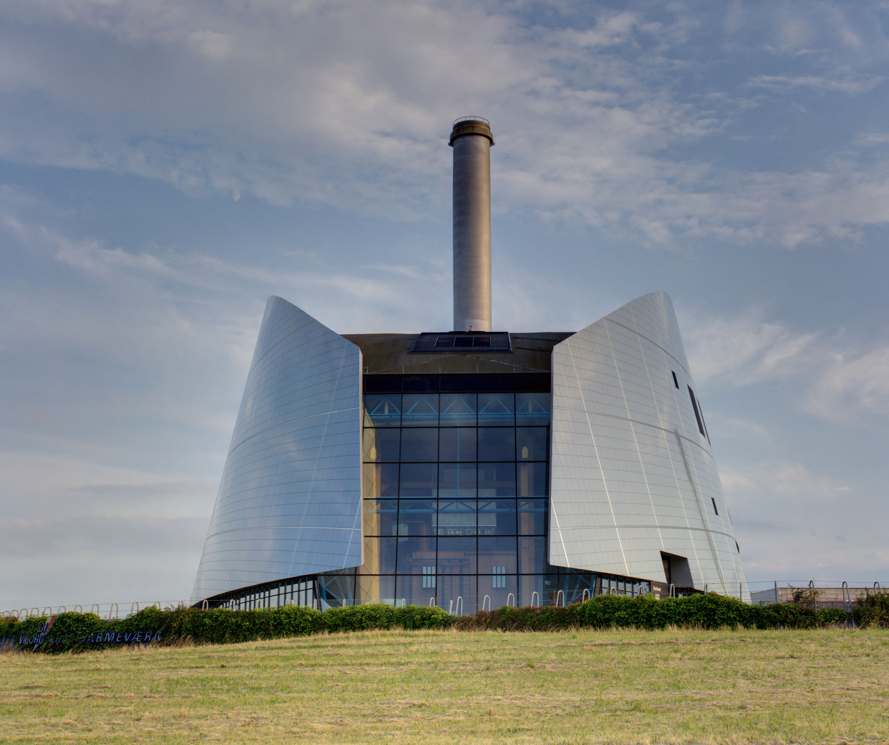 Viborg Power Plant as seen from North